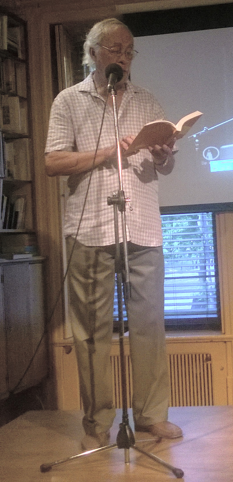 Anthony Phelps photographed in Montréal , Québec, Canada inside the Québec Writers' Union building.